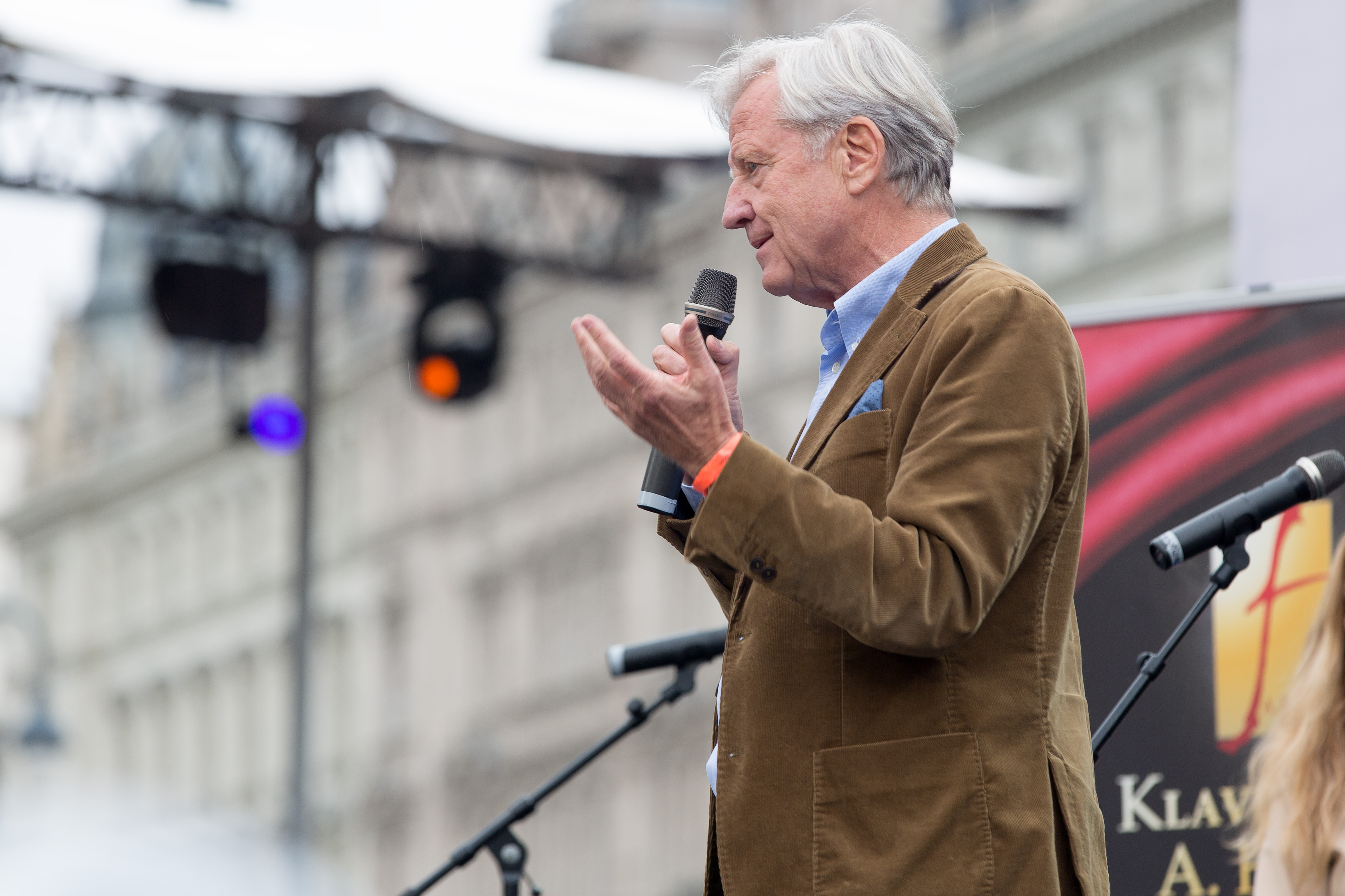 Freddy Burger, the manager of late singer Udo Jürgens, at a tribute to Jürgens in the week before Eurovision Song Contest 2015 at the Eurovision Village on Rathausplatz in Vienna, Austria.